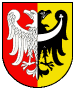 Coat of arms of Wrocław from 1948-1990. From the Polish WP article Herby Wrocł‚awia